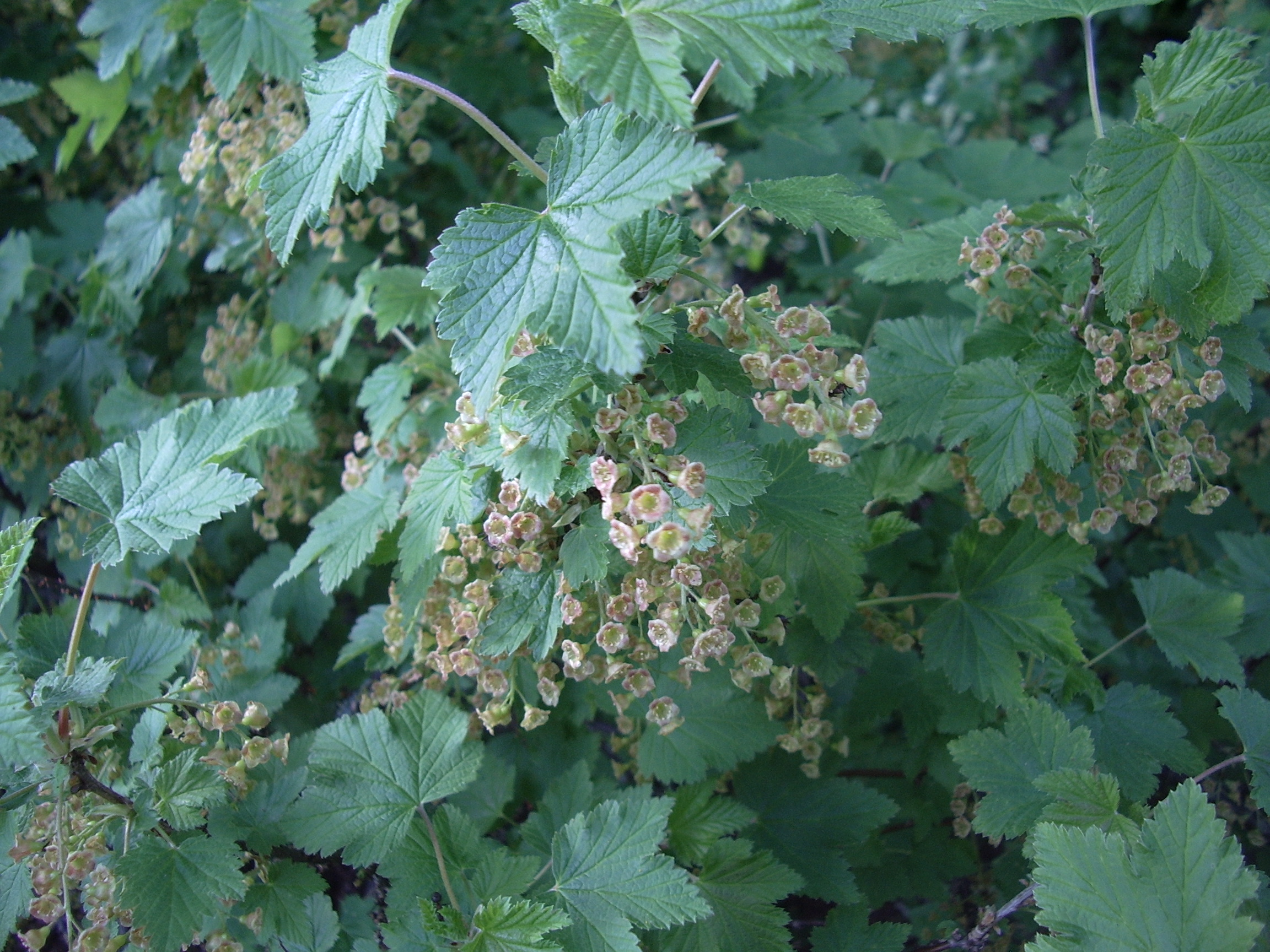 Blooming red currant